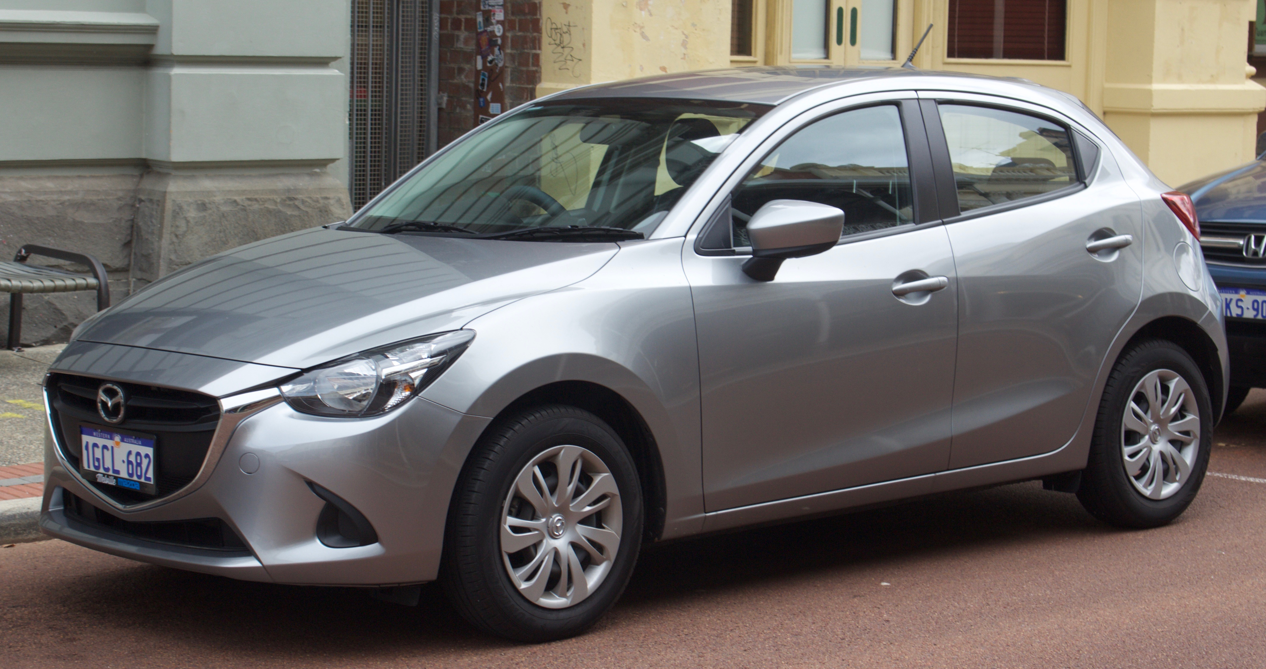 2016 Mazda2 (DJ) Neo hatchback. Photographed in Fremantle, Western Australia, Australia.